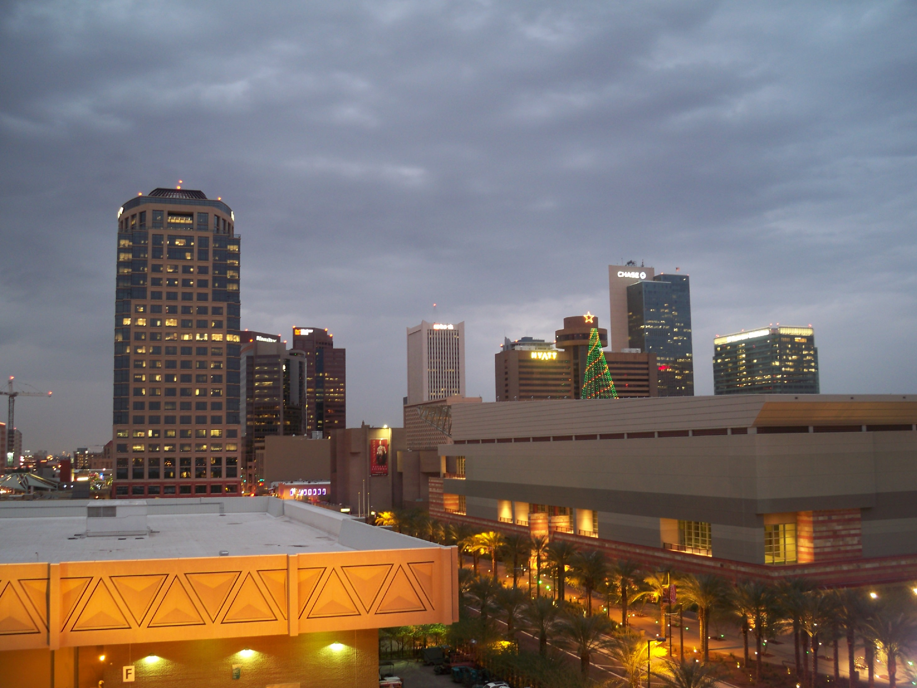 Downtown Phoenix Arizona in December. The Christmas tree in front of the Hyatt Regency Phoenix stands over 170 feet tall.